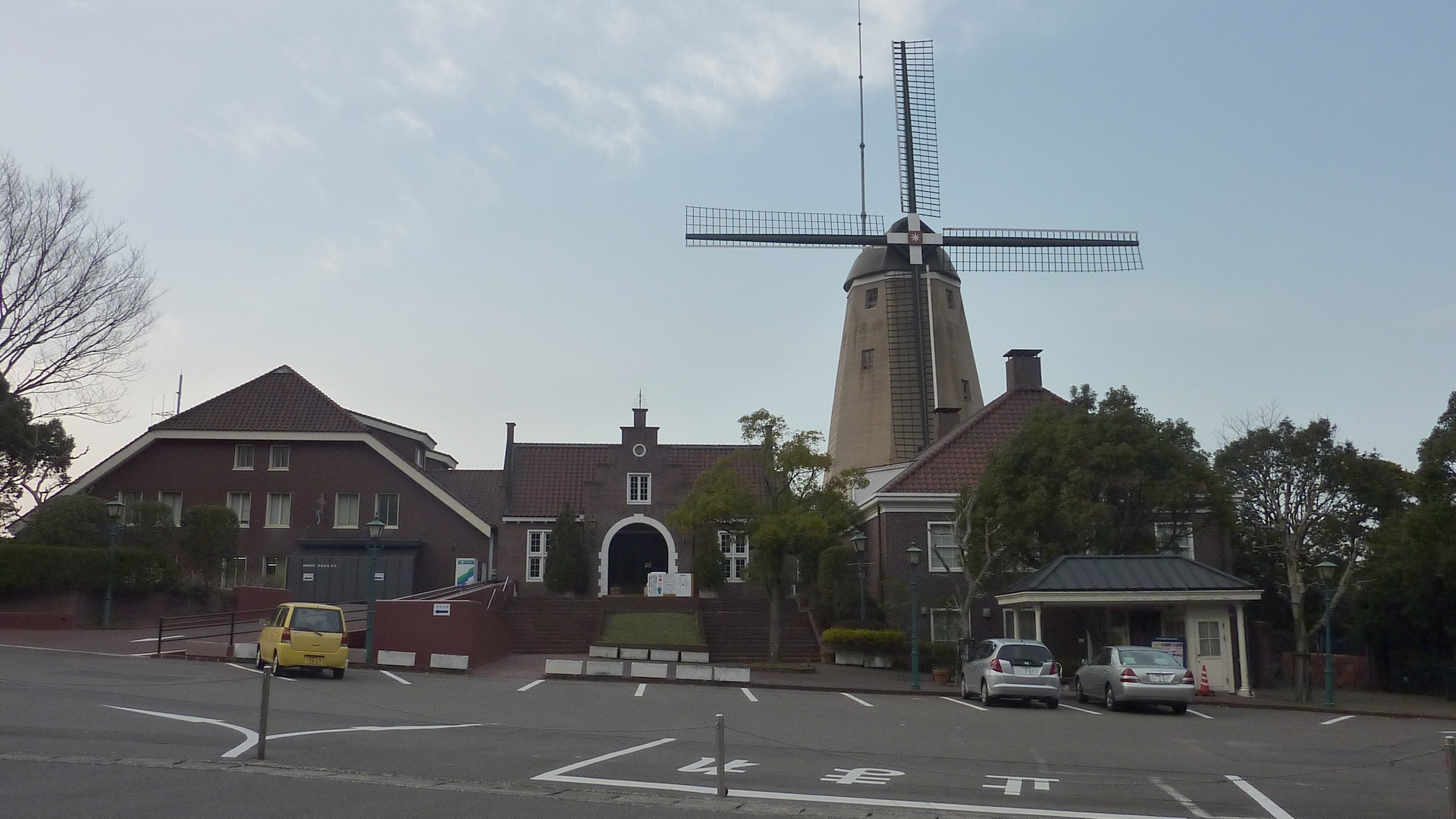 Former "Nagasaki Holland Village", present Saikai City Office Seihi Branch (Nagasaki Prefecture, Japan)